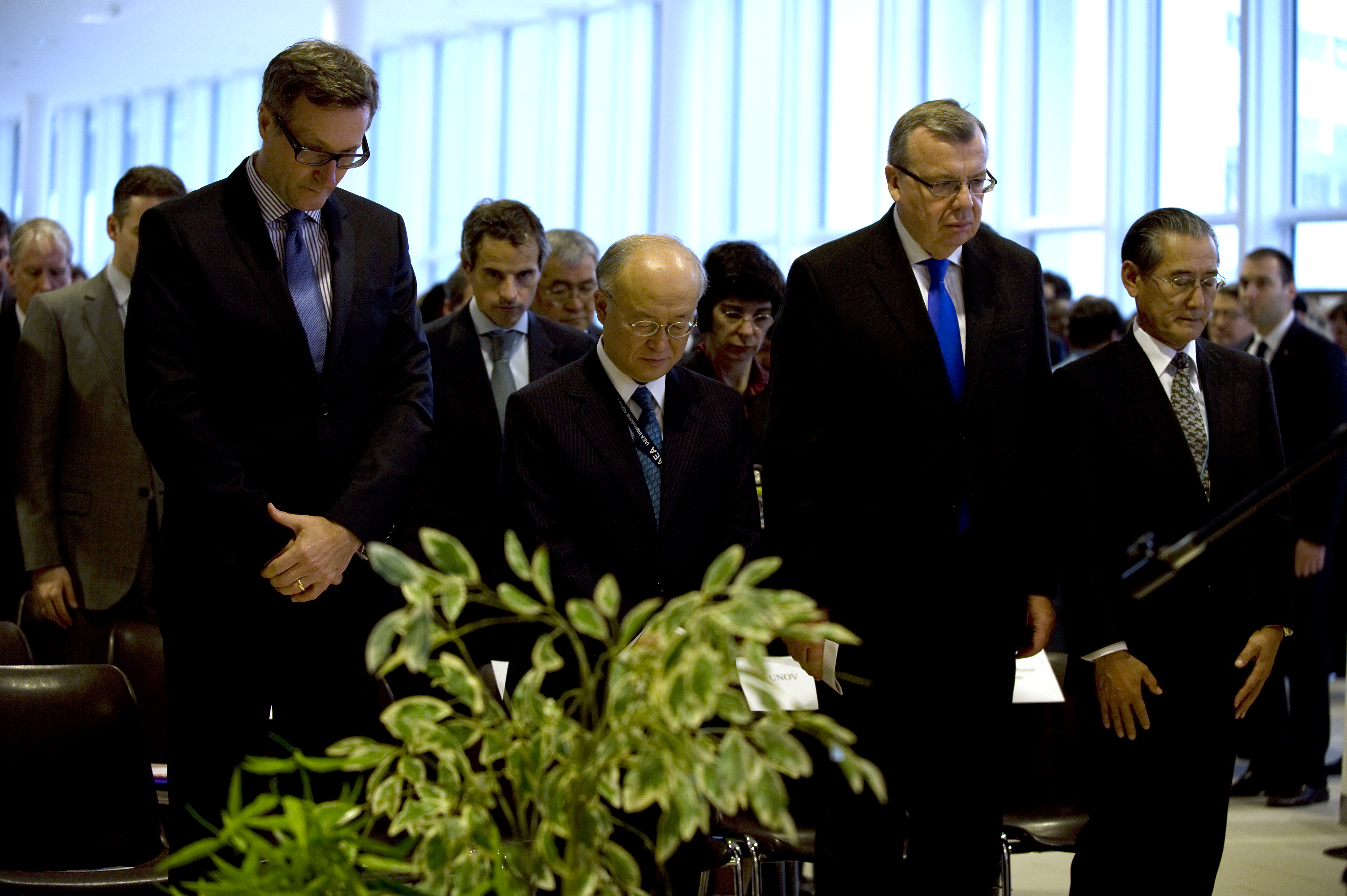 Tibor Toth, Executive Secretary of the Preparatory Commission for the Comprehensive Nuclear-Test-Ban Treaty Organization, Yukiya Amano, Director General of the International Atomic Energy Agency, Yuri Fedotov, Executive Director of the United Nations Office on Drugs and Crime / Director-General of the United Nations Office at Vienna, and Toshirō Ozawa, Ambassador to the International Organizations in Vienna, were a moment of silence for the victims of the Tōhoku earthquake and tsunami at the Vienna International Centre in Vienna City, Vienna State on March 12, 2012.